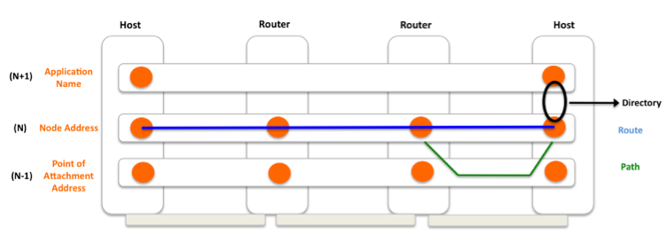 Figure 5. Saltzer's point of view on naming and addressing in computer networks.